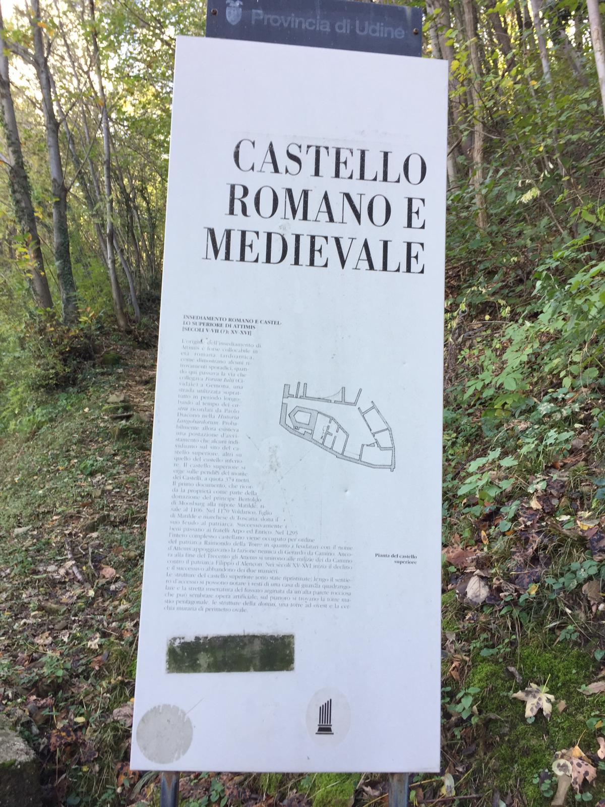 Attimis Sup